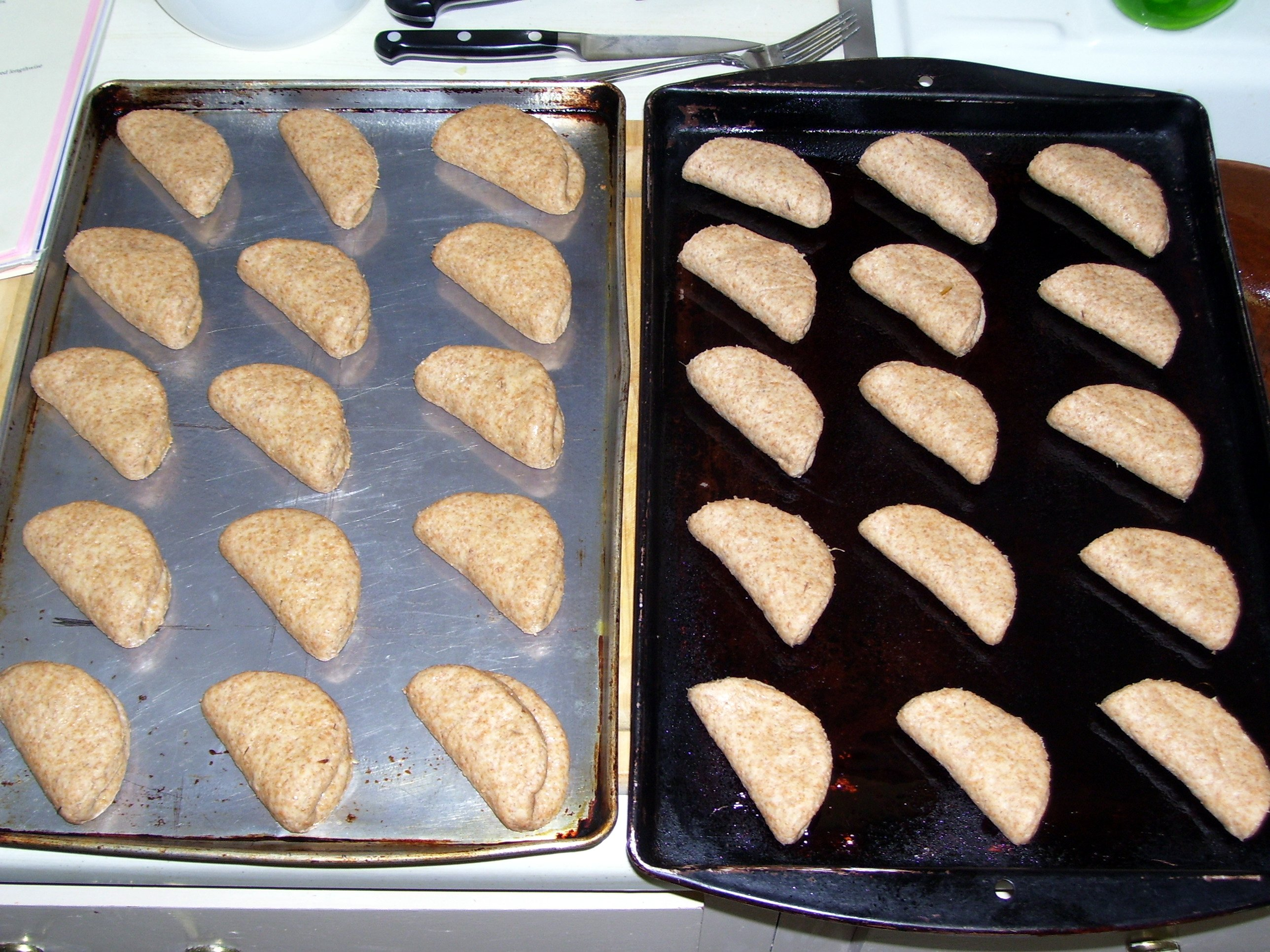 I made parker house rolls from my grandmother's recipe. Here I've shaped them and they're rising so I can bake them.